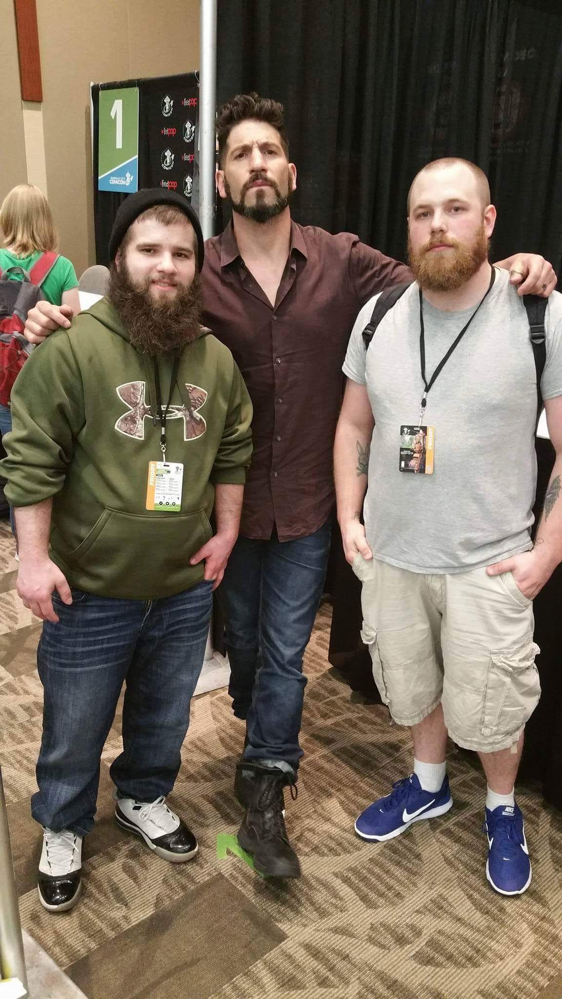 Jon Bernthal (middle) at Emerald City Comic Con 2016